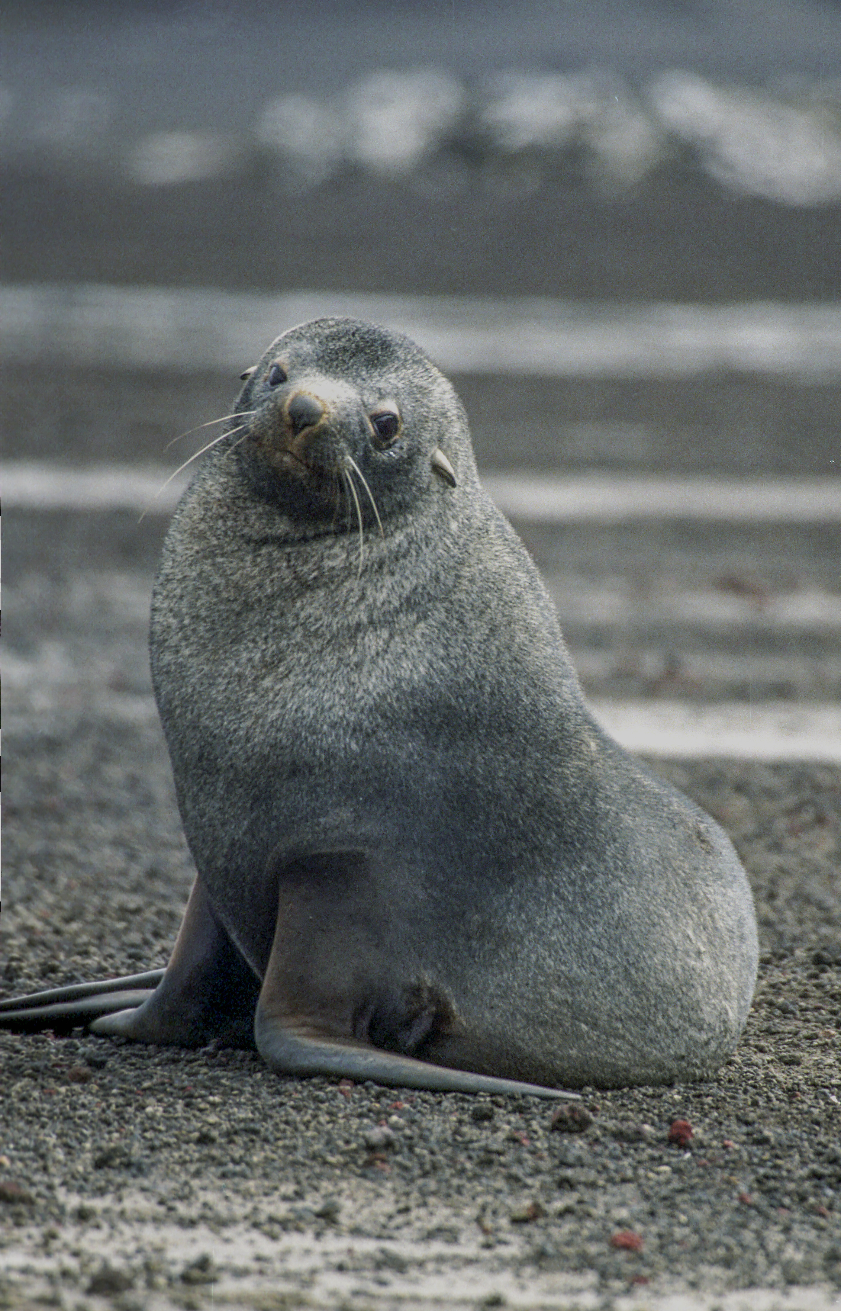 Antarctica, Antarctic Fur Seal